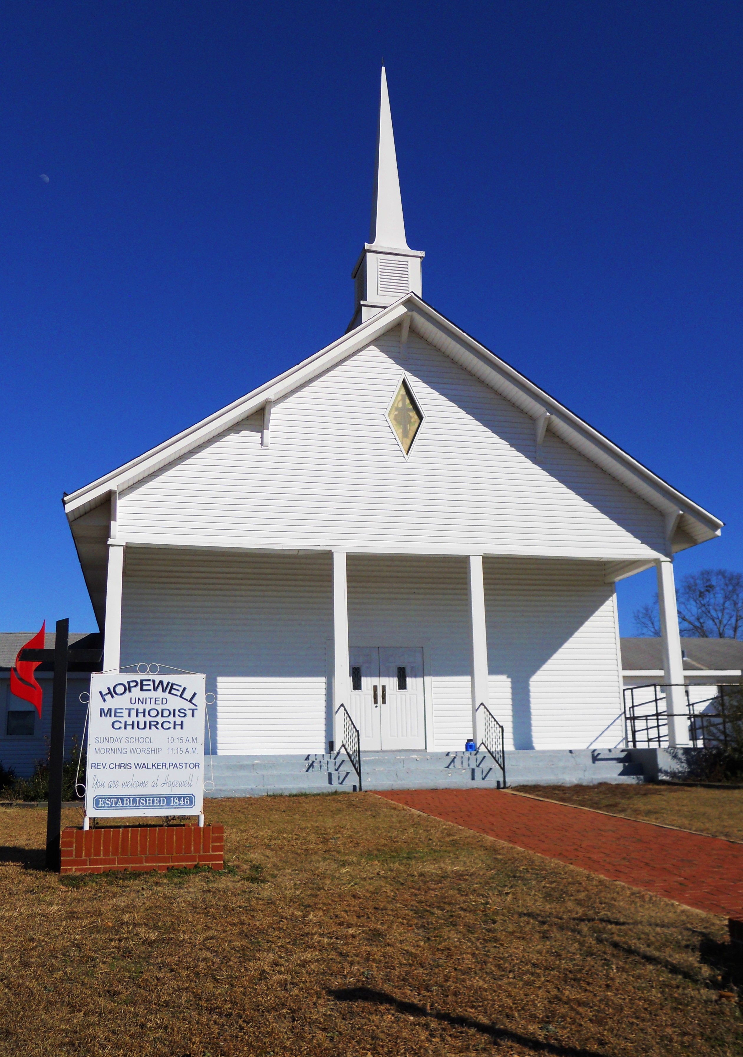 This is a photo of the Hopewell United Methodist Church in Hopewell, Alabama.